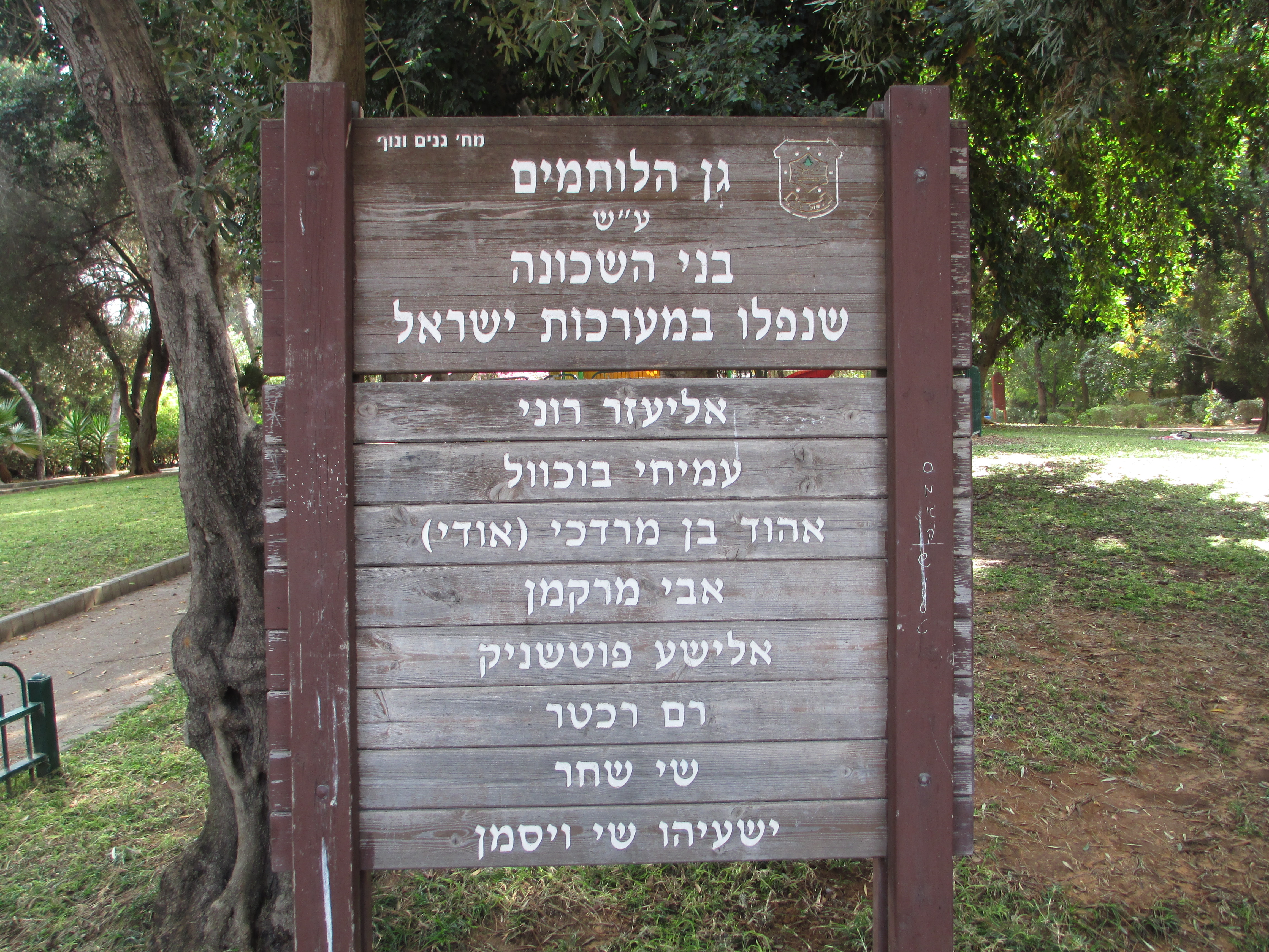 War memorial garden in Ramat Gan